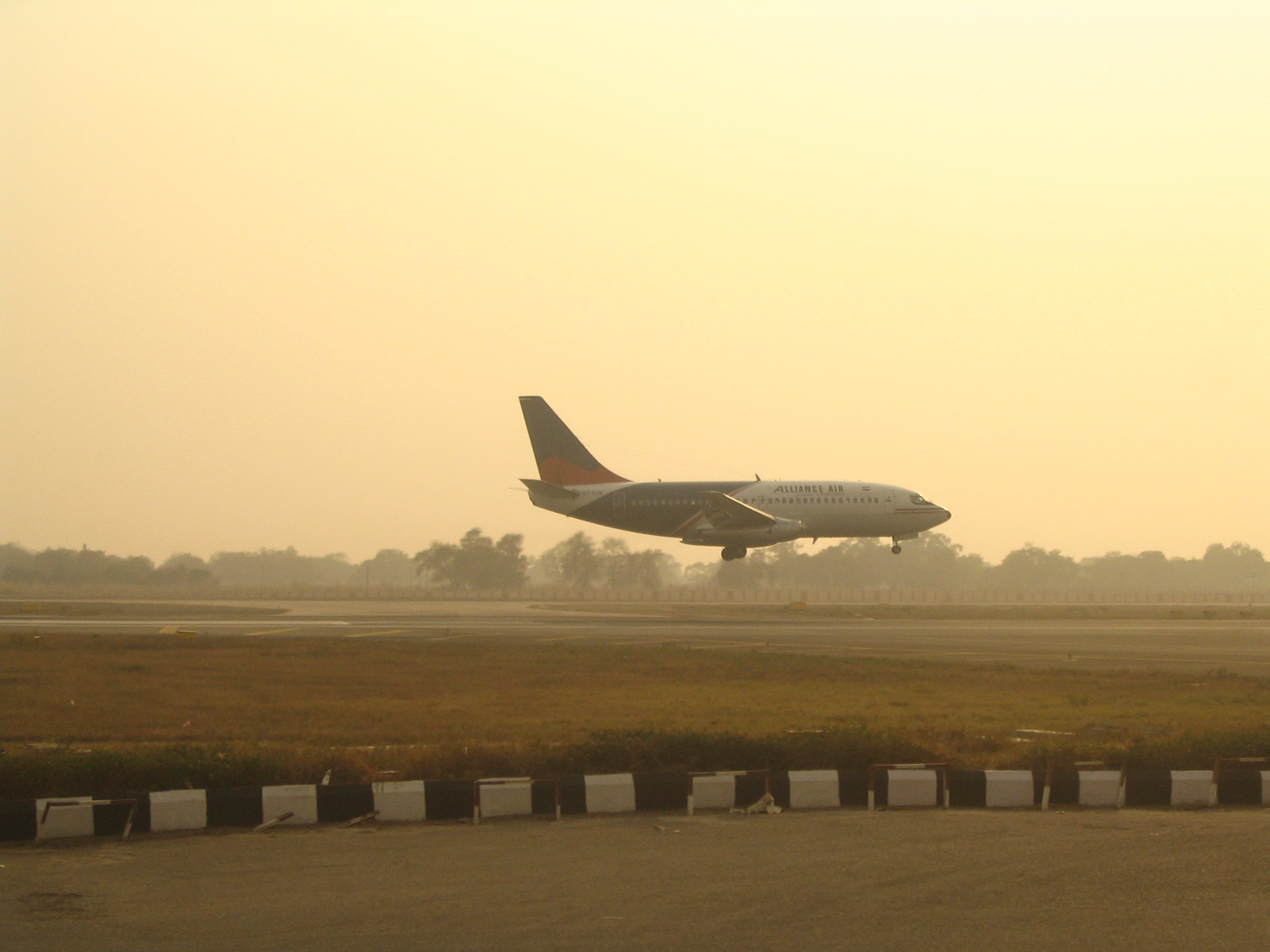 Air India Regional aircraft landing at Indira Gandhi International Airport, New Delhi, India